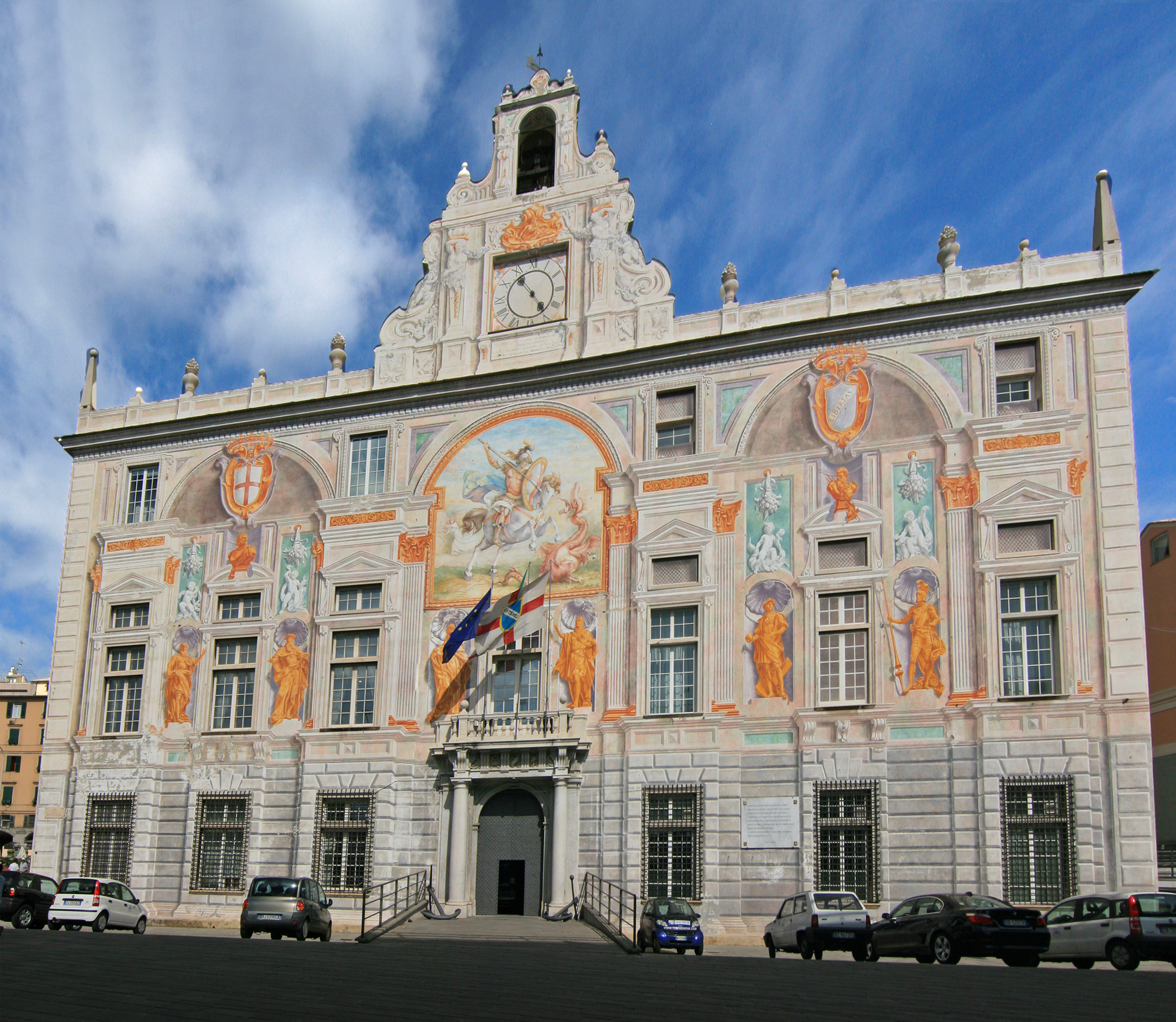 Palazzo San Georgio — in Genoa, Liguria region, northern Italy. Genoan Renaissance palace, view of west side with Italian wall paintings.